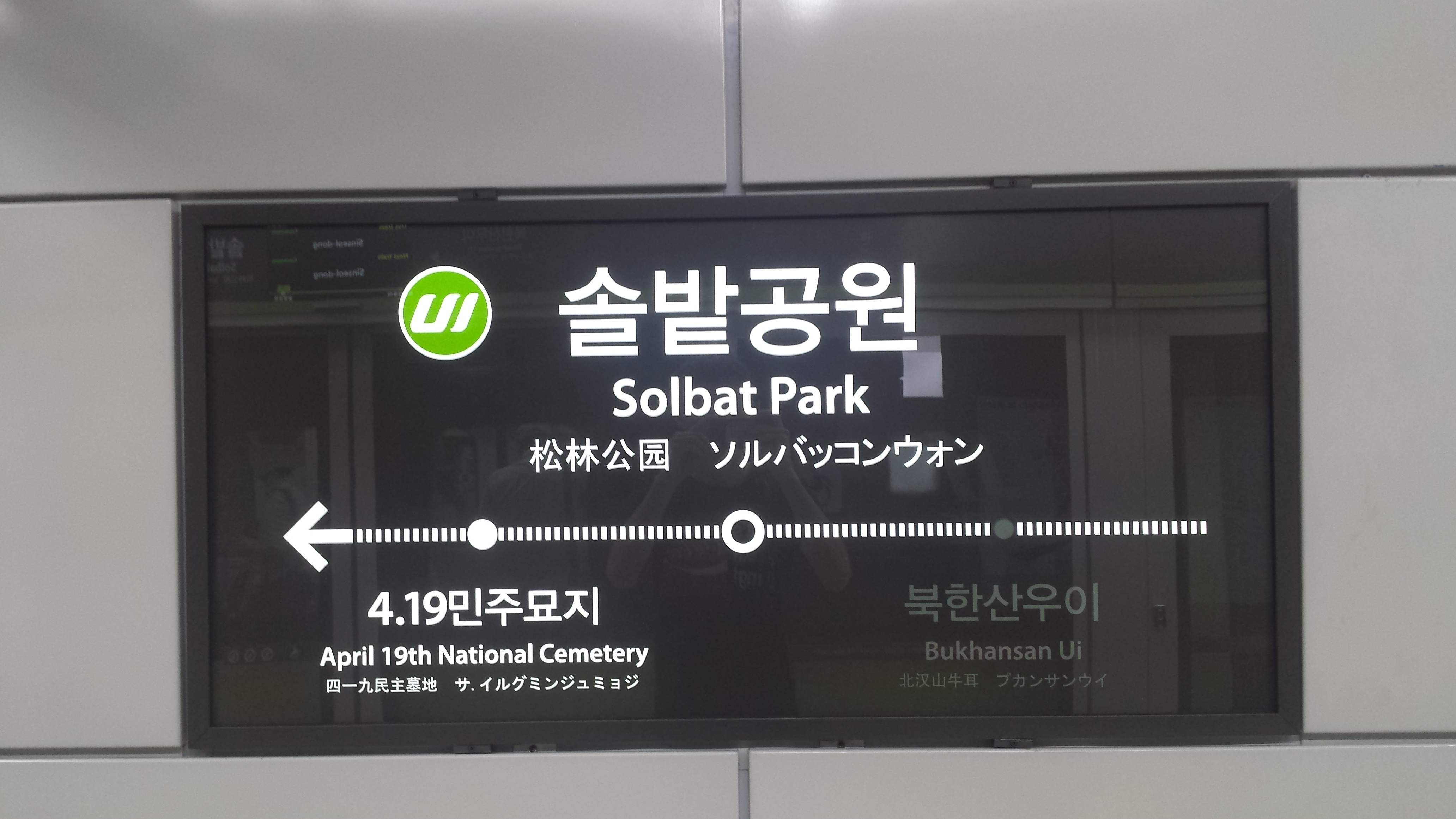 Solbat Park station sign